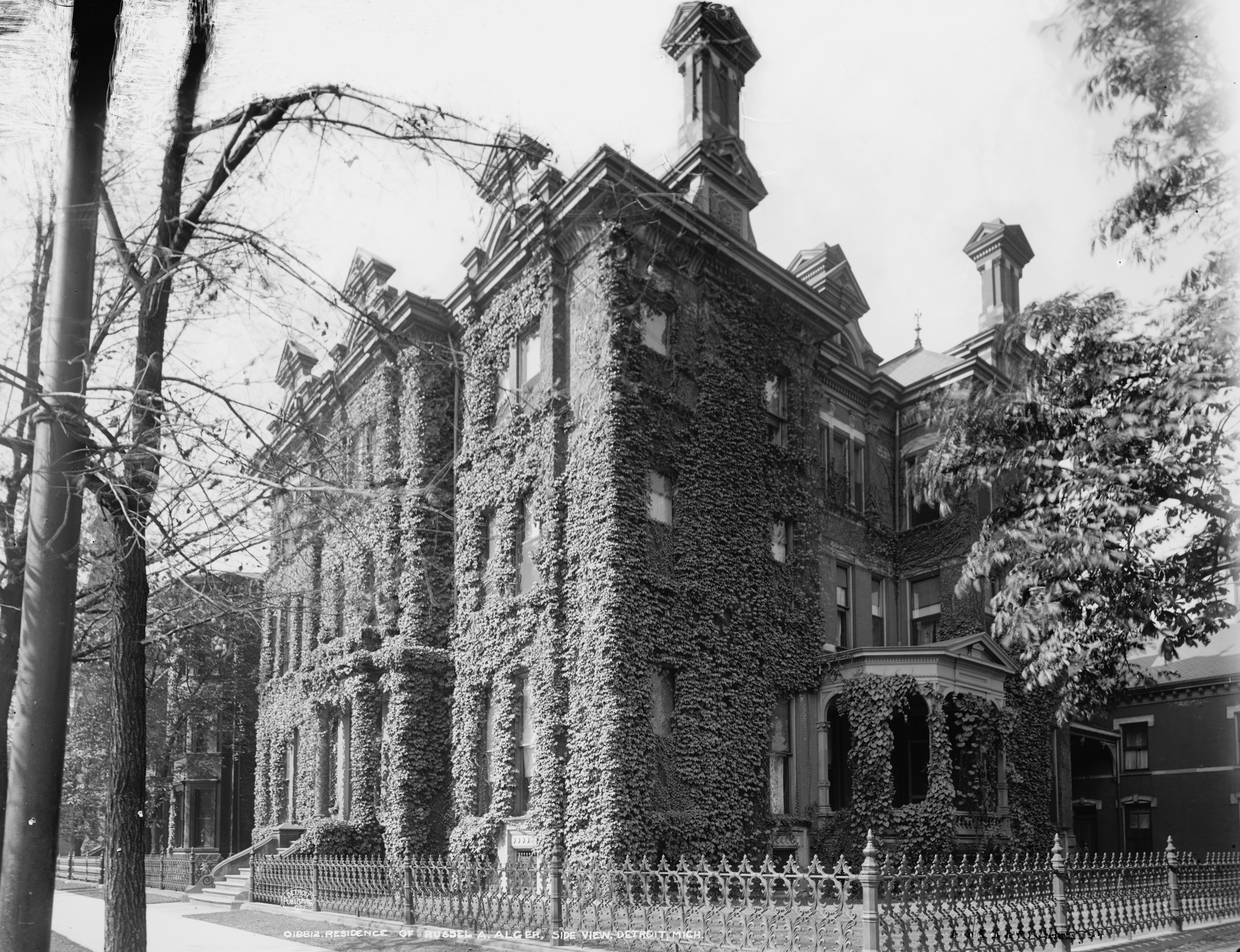 Residence of Russel [sic] A. Alger, side view, Detroit, Mich.